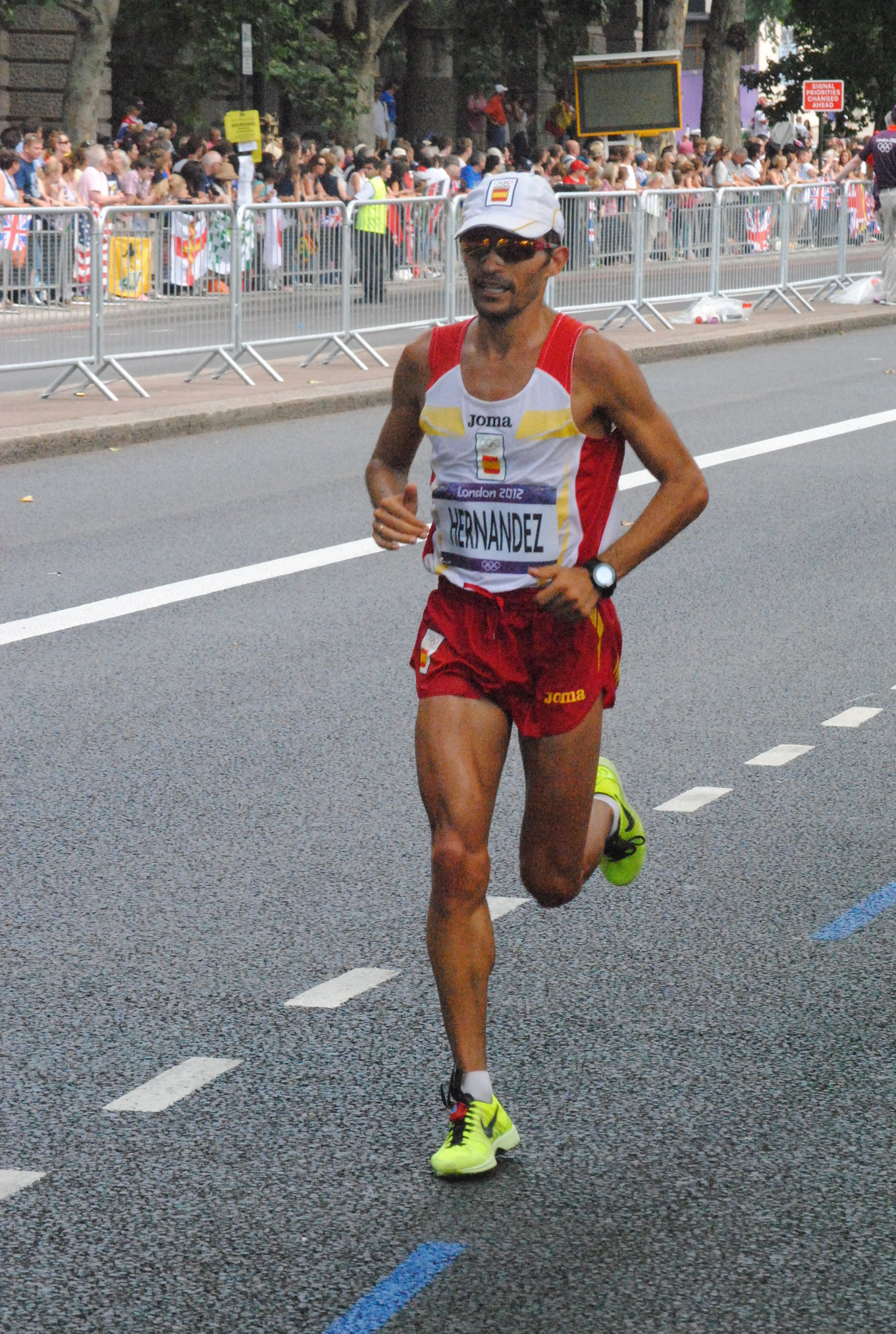 The men's marathon of the 2012 Summer Olympics in London, UK took place on an Olympic marathon street course on Sunday 12th August 2012 at 11:00. This was the final day of the 30th Olympic Games. The London 2012 marathon course is the standard Olympic distance of 26 miles 385 yards and consists of one short lap of approx 2.2 miles followed by three longer laps of 8 miles. The course began on The Mall and travelled past several of the most famous London landmarks. The start/finish line was near the Victoria Memorial. These photographs were taken at the Victoria Embankment. This featured several times on the looped course. The approximate location from the photographs is shown in the Google StreetView Link below. Stephen Kiprotich won in 2 hours, 8 minutes, 1 second as he pulled away from the Kenyan duo of Abel Kirui and Wilson Kiprotich Kipsang. These photographs are unofficial photographs. They are not endorsed by London 2012. There are not commercially available. They are available for use under a Creative Commons License. Please link back to the photograph on my Flickr account if you use the image.